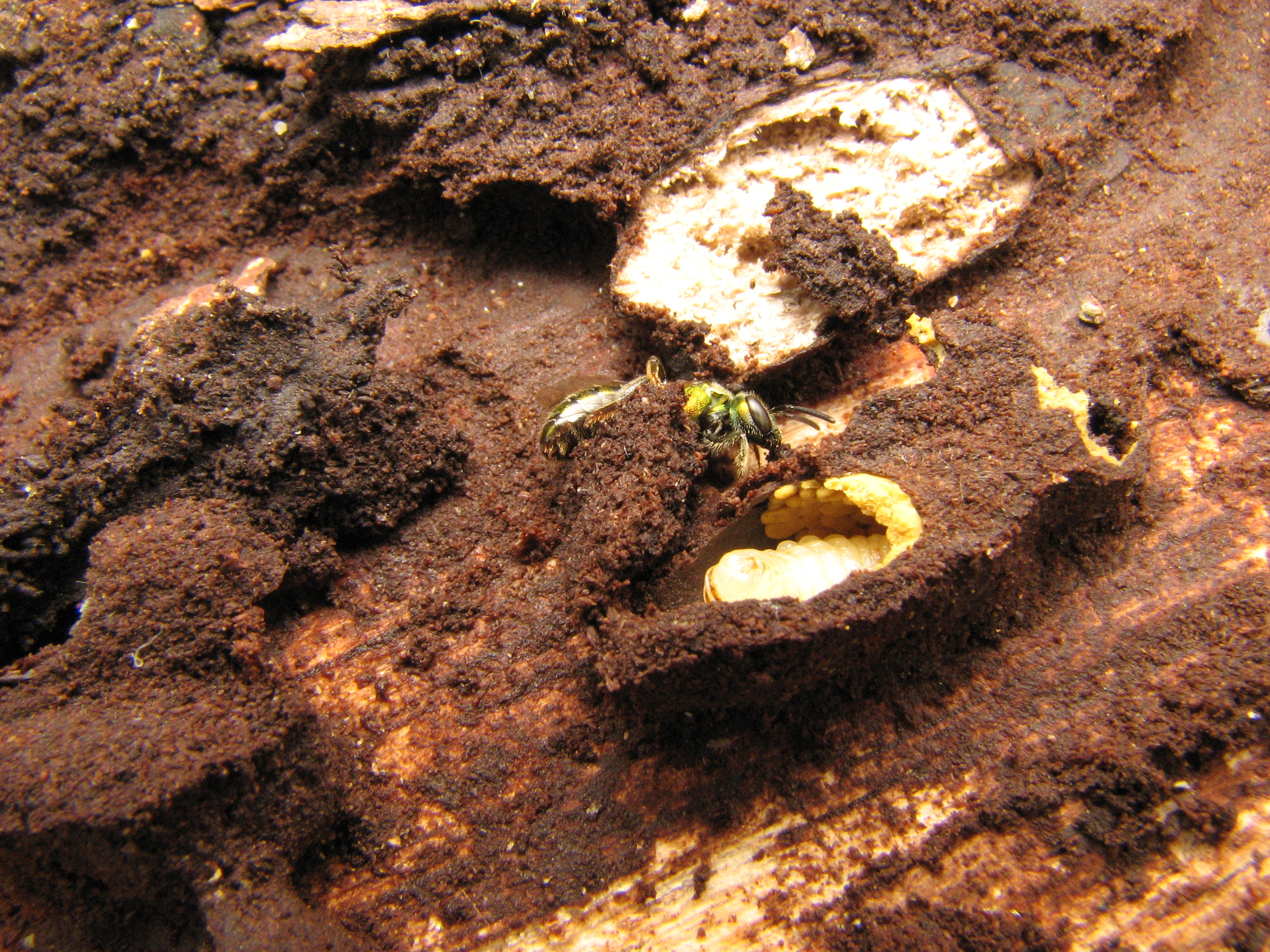 Nest of halictid bee, Augochlora pura, under bark, and cell with larva. Briar Bush Nature Center, Montgomery County, Pennsylvania, USA.